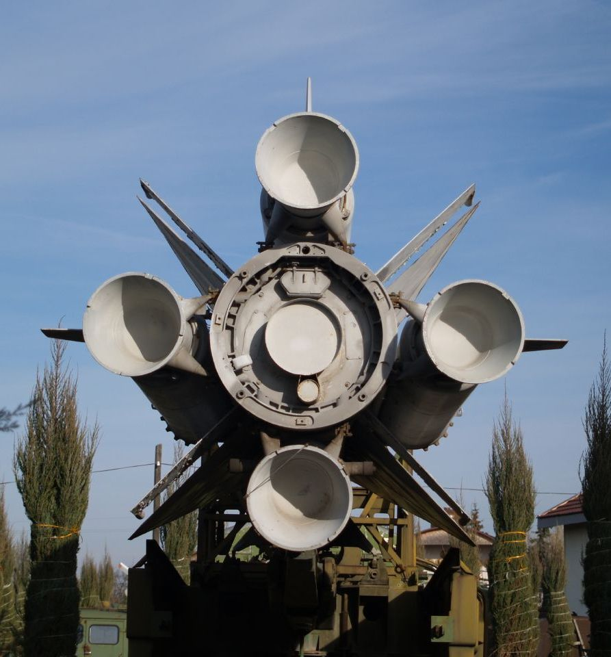 The rocket-engines on the rear of a Soviet-built S-200 surface-to-air missile (NATO reporting name SA-5 Gammon) in the hungarian military museum Kecel hadtörténeti park.